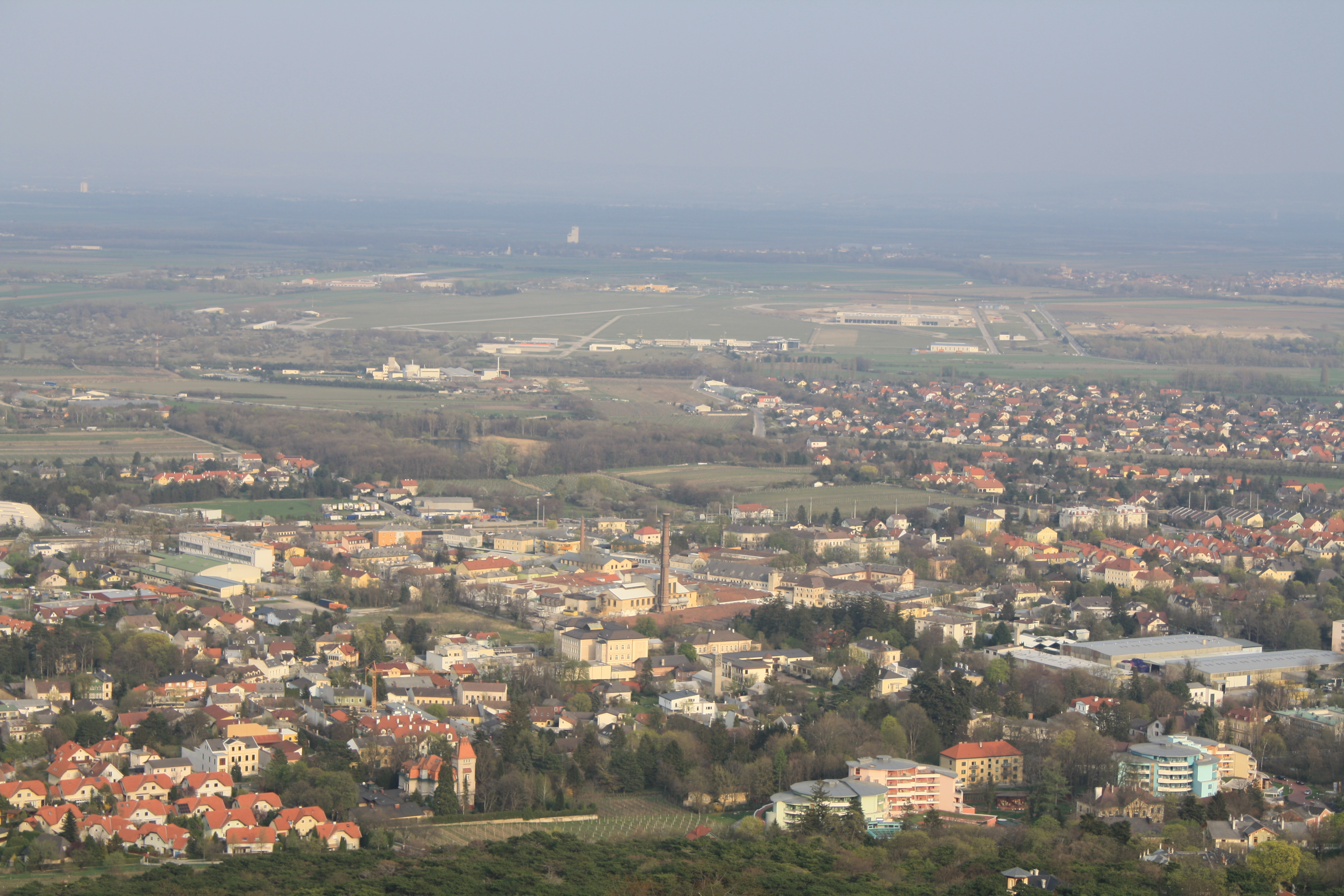 View from Harzberg near Bad Vöslau till east, Lower Austria